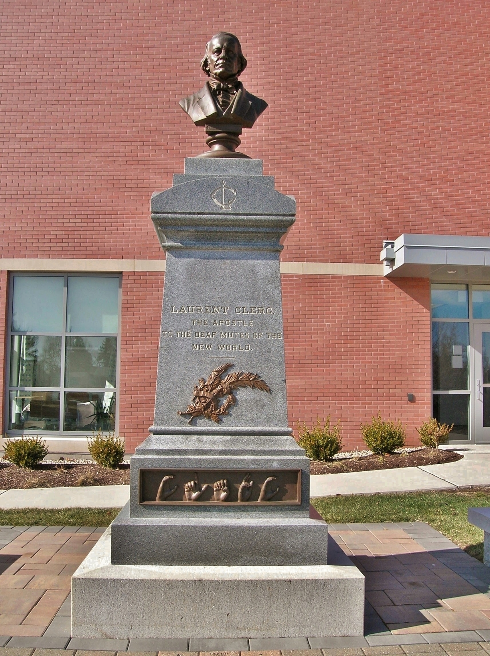 Laurent Clerc memorial sculpture by Carl Conrads (1874), located at the American School for the Deaf, West Hartford, Connecticut.